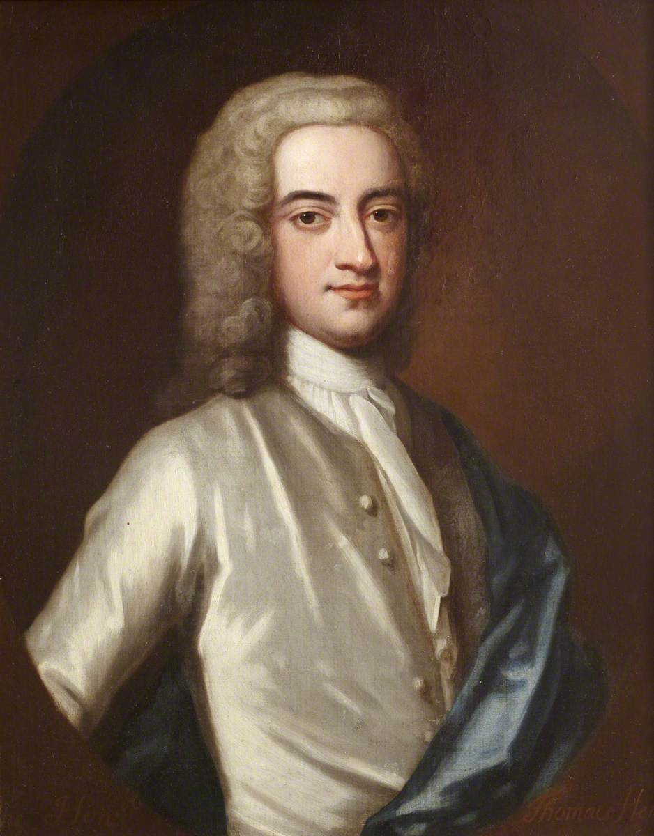 Painting of Thomas Hervey, now held by the National Trust, at Ickworth.